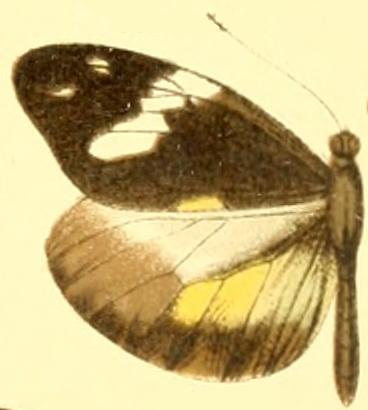 Plate from The Macrolepidoptera of the World. Vol. 5. Pieridae Dismorphiinae: Dismorphia zaela